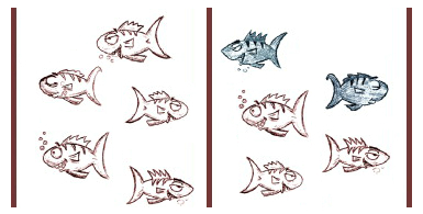 Illustration of isotope dilution analysis with fish counting in lakes by capture/recapture method